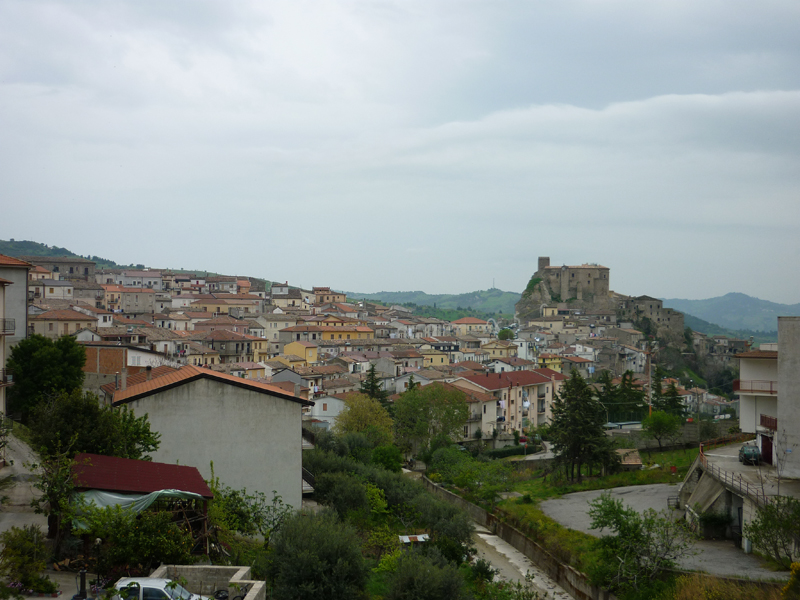 Oriolo. View of the city